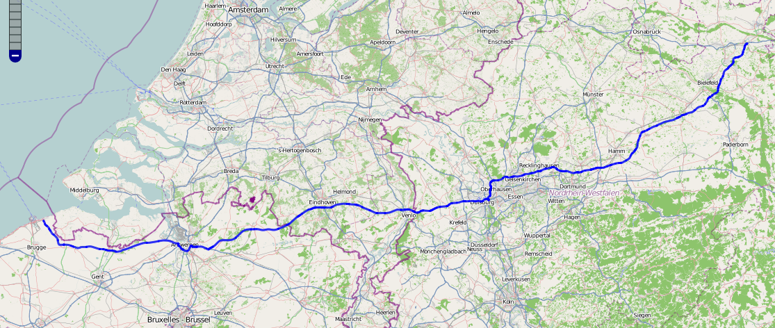 E34 screenshot from OSM